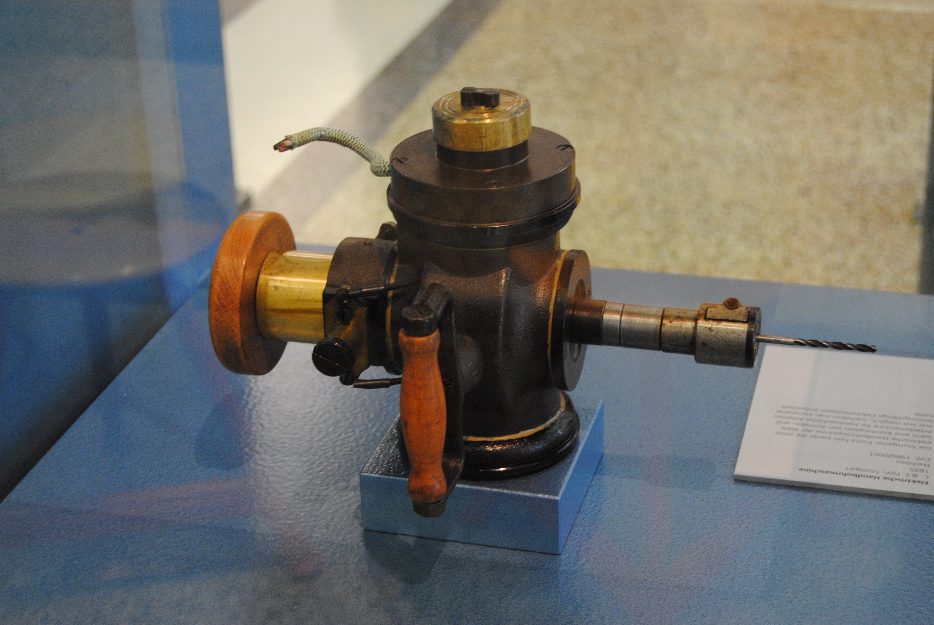 First handheld drill, C. & E. Fein, Stuttgart, 1895 (replica), shown at the Landesmuseum für Technik und Arbeit (Technoseum) Mannheim.